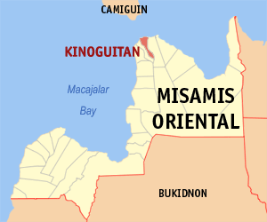 Map of the Misamis Oriental showing the location of Kinoguitan